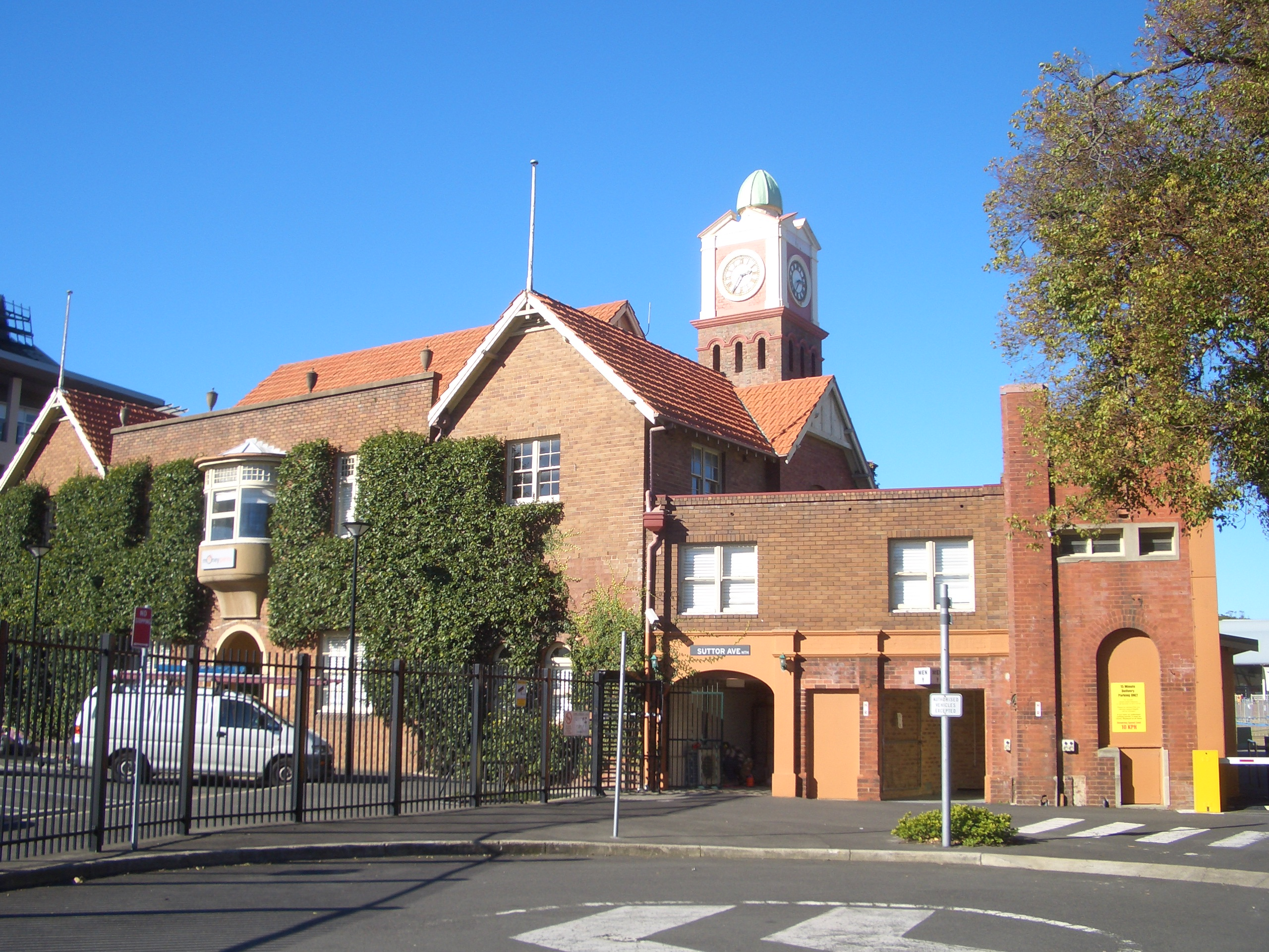 Entertainment Quarter, Sydney, old Showground